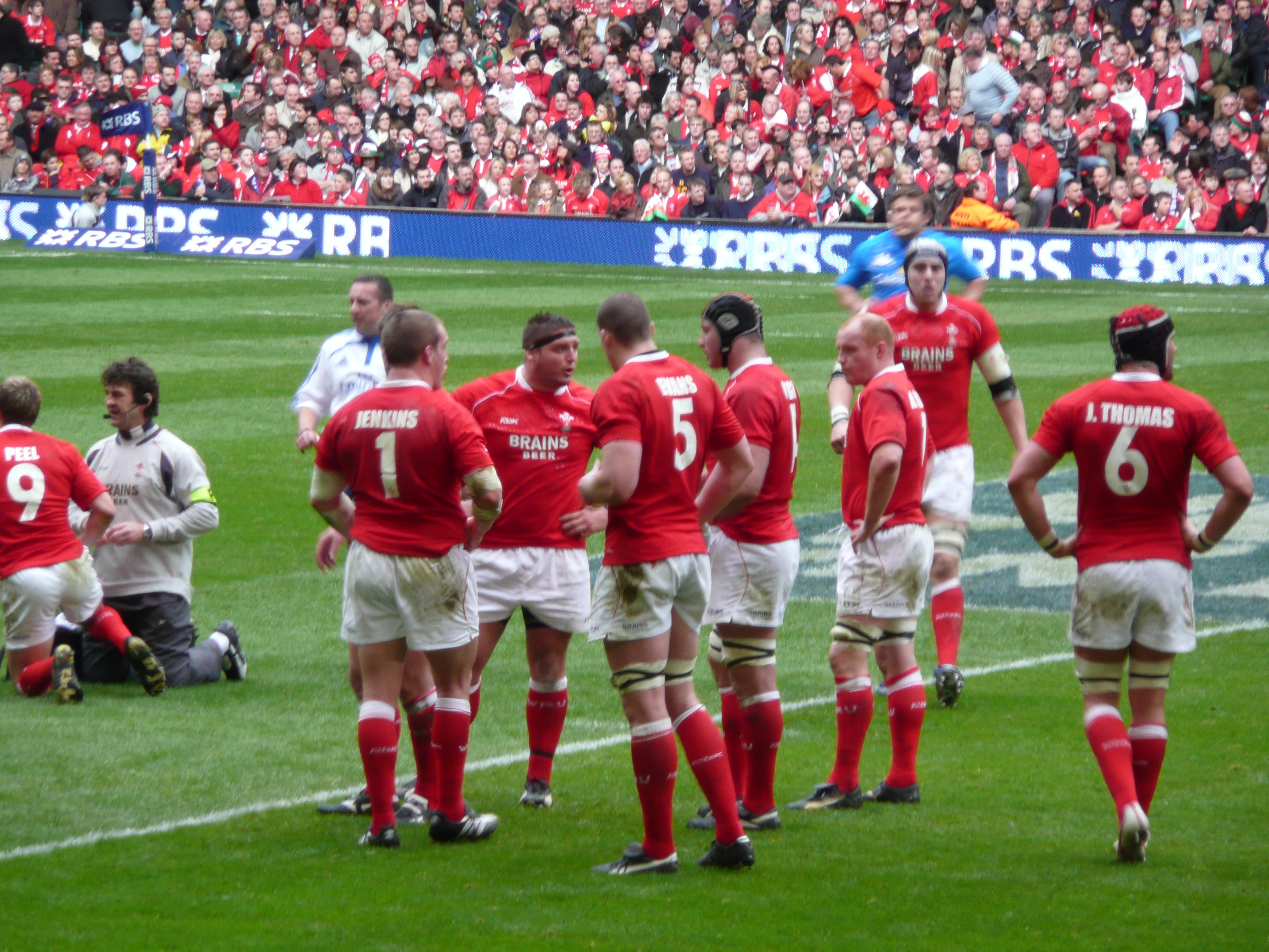 at millennium stadium, cardiff, wales Six Nations